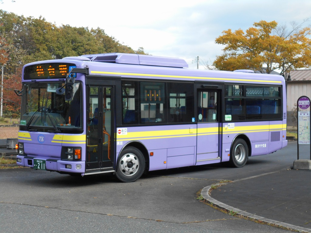 Takeya Kotsu (Akiu,Kawasaki,Sendai west liner) Isuzu Erga Mio